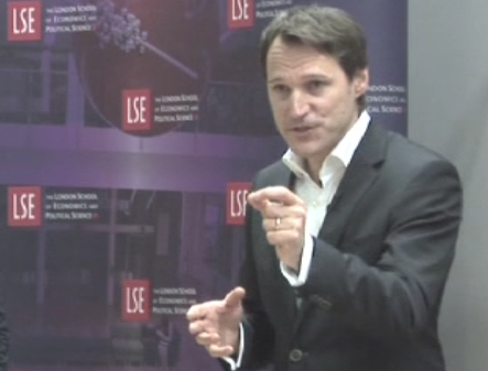 Rolf Dobelli on "The Art of Thinking Clearly" at the London School of Economics (LSE) on 11 April 2013